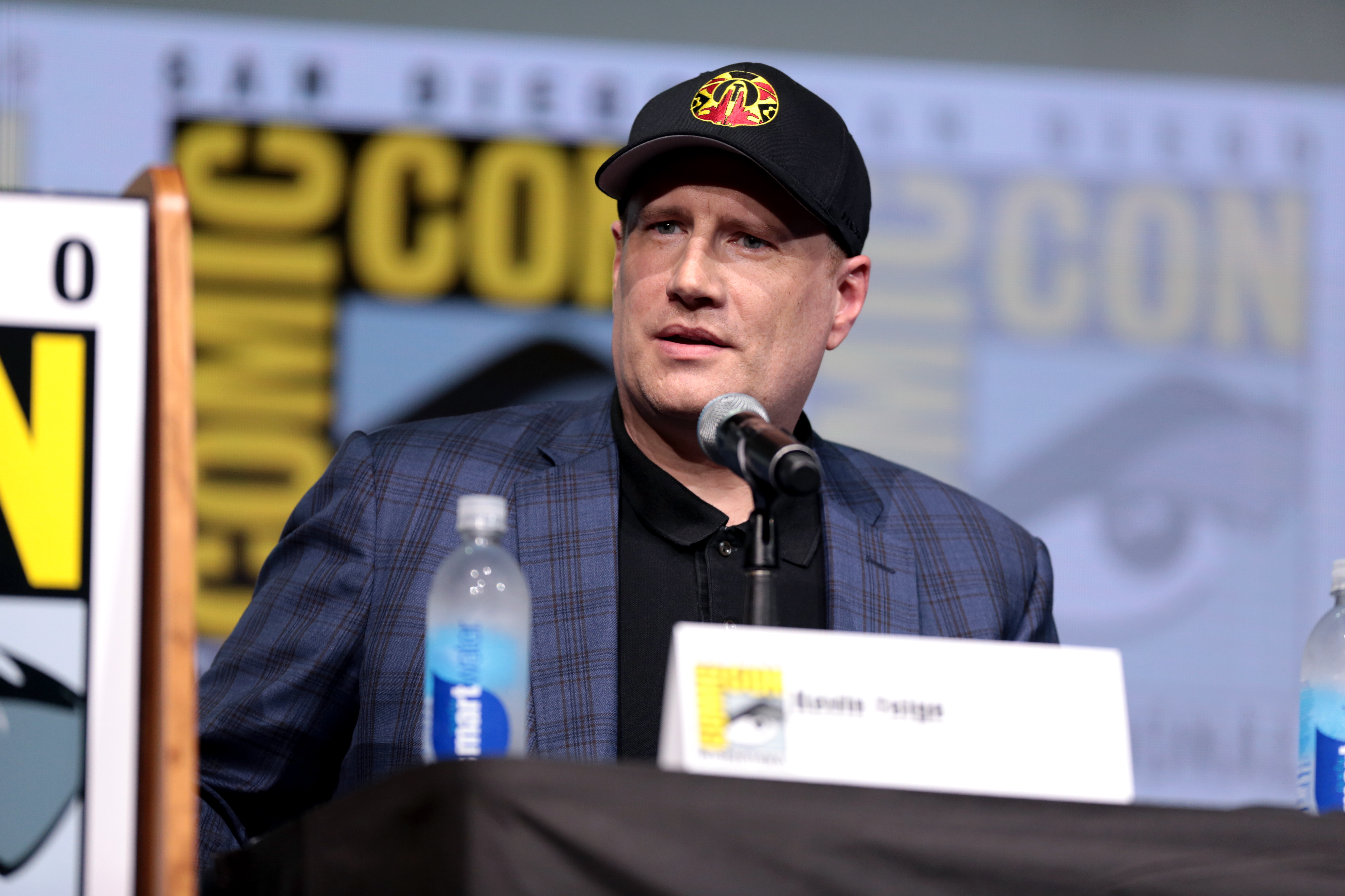 Kevin Feige speaking at the 2017 San Diego Comic Con International, for "Thor: Ragnarok", at the San Diego Convention Center in San Diego, California.